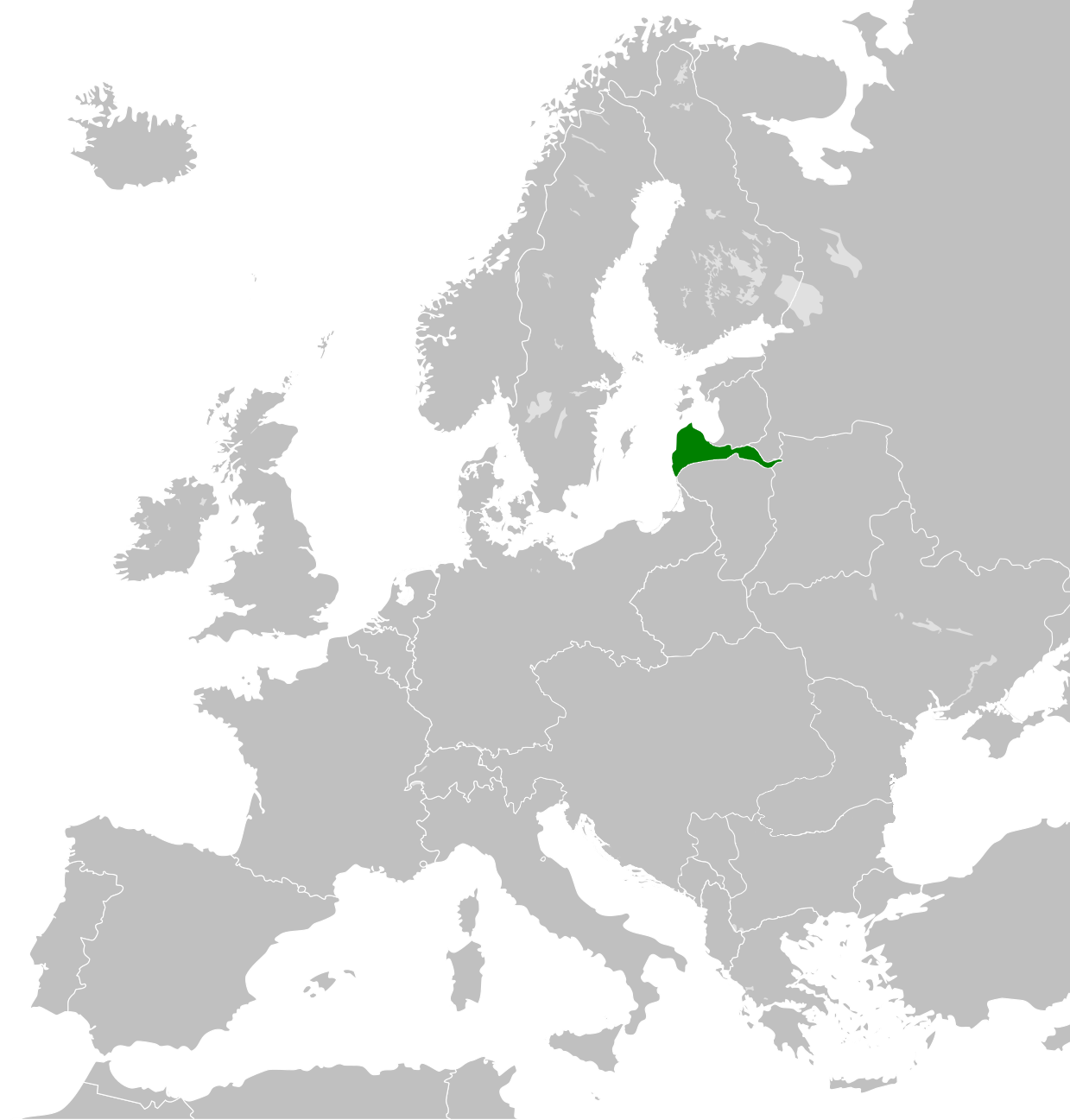 The Duchy of Courland and Semigallia 1918 was a short-lived state in 1918. It was a cient state of the German Empire after the signing of the treaty of Brest-Litovsk.